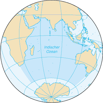 Map of the Indian Ocean (Labels in German language) Translation to German Language by Pit